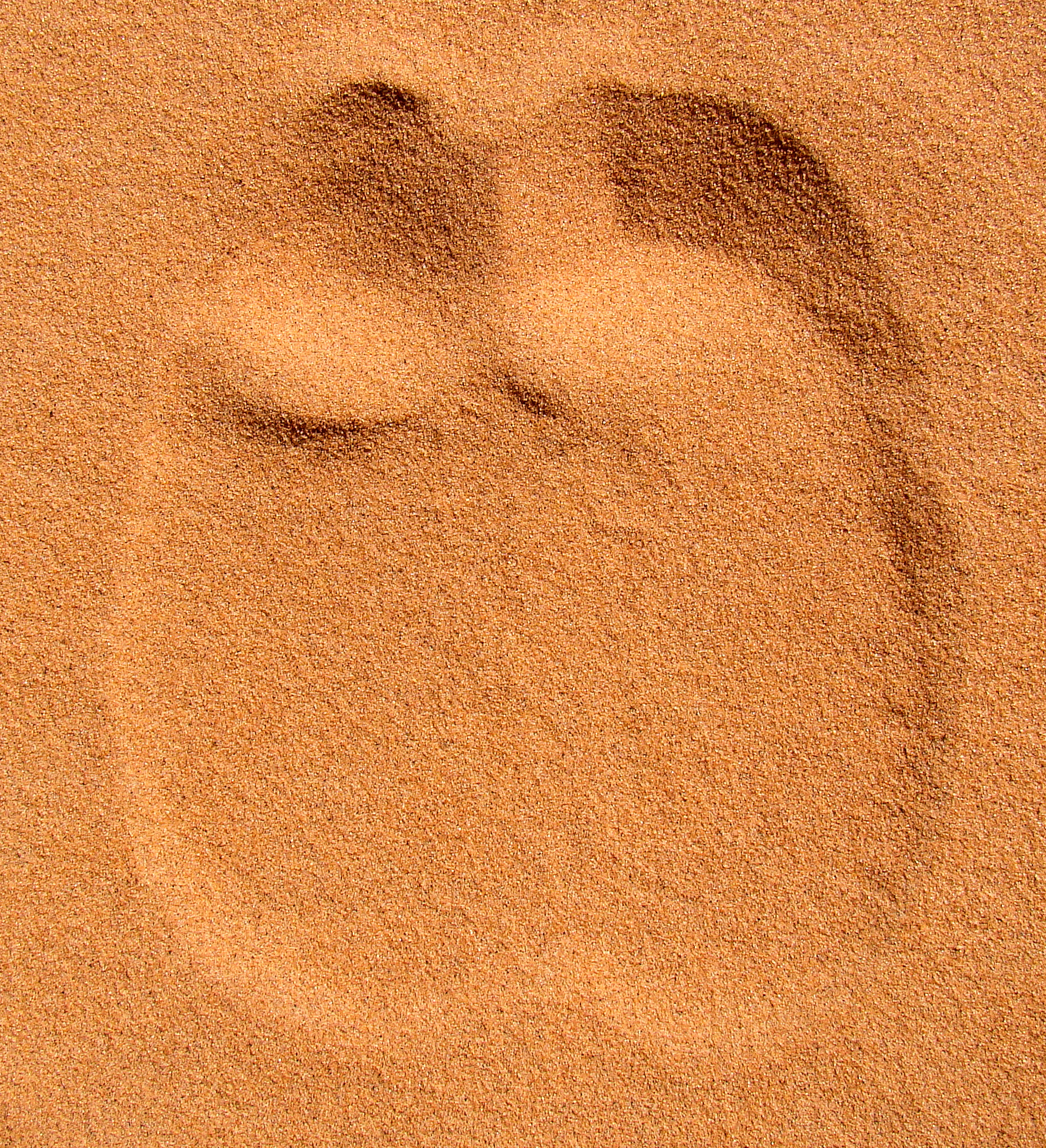 A dromedary footprint on dry sand, found in Erg Chebbi near Merzouga, Morocco.